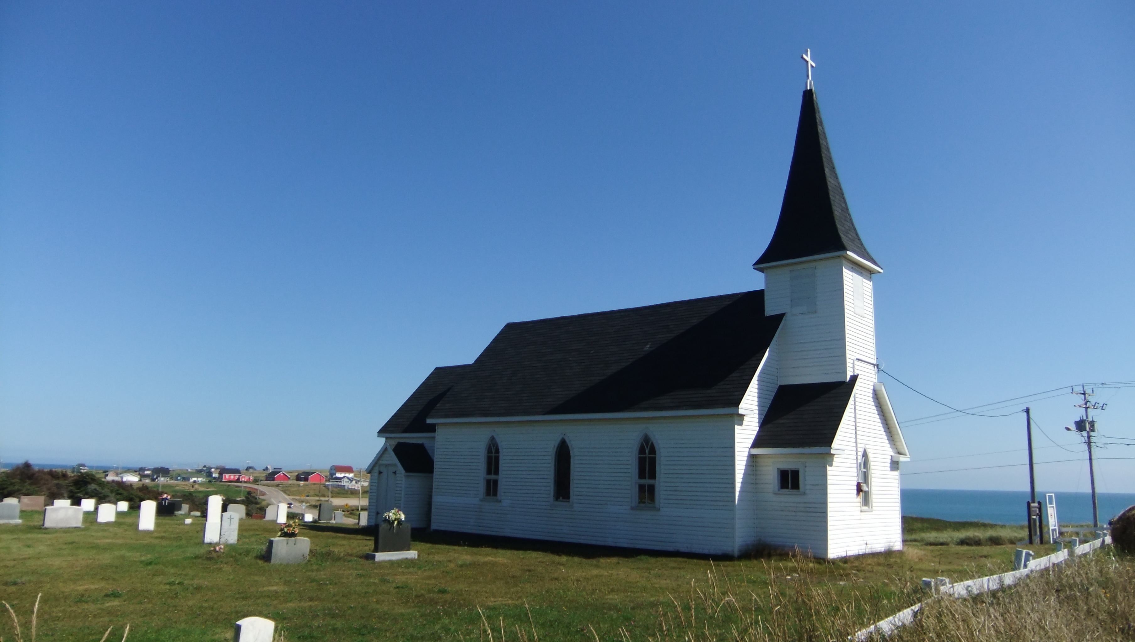 (Back view) The Saint-Peter's-By-the-Sea Old Harry Church, located in Old Harry's hamlet within the municipality of Grosse-Île, is one of the three churches of the Anglican Parish of Magdalen Islands. Erected in 1916-1917, in a neo-gothic style, it is formally recognized as heritage monument in the Cultural Heritage Register of Québec (Répertoire du patrimoine culturel du Québec, 2008-06-11), and listed on the Canada's Historic Places Register (2009-01-28).